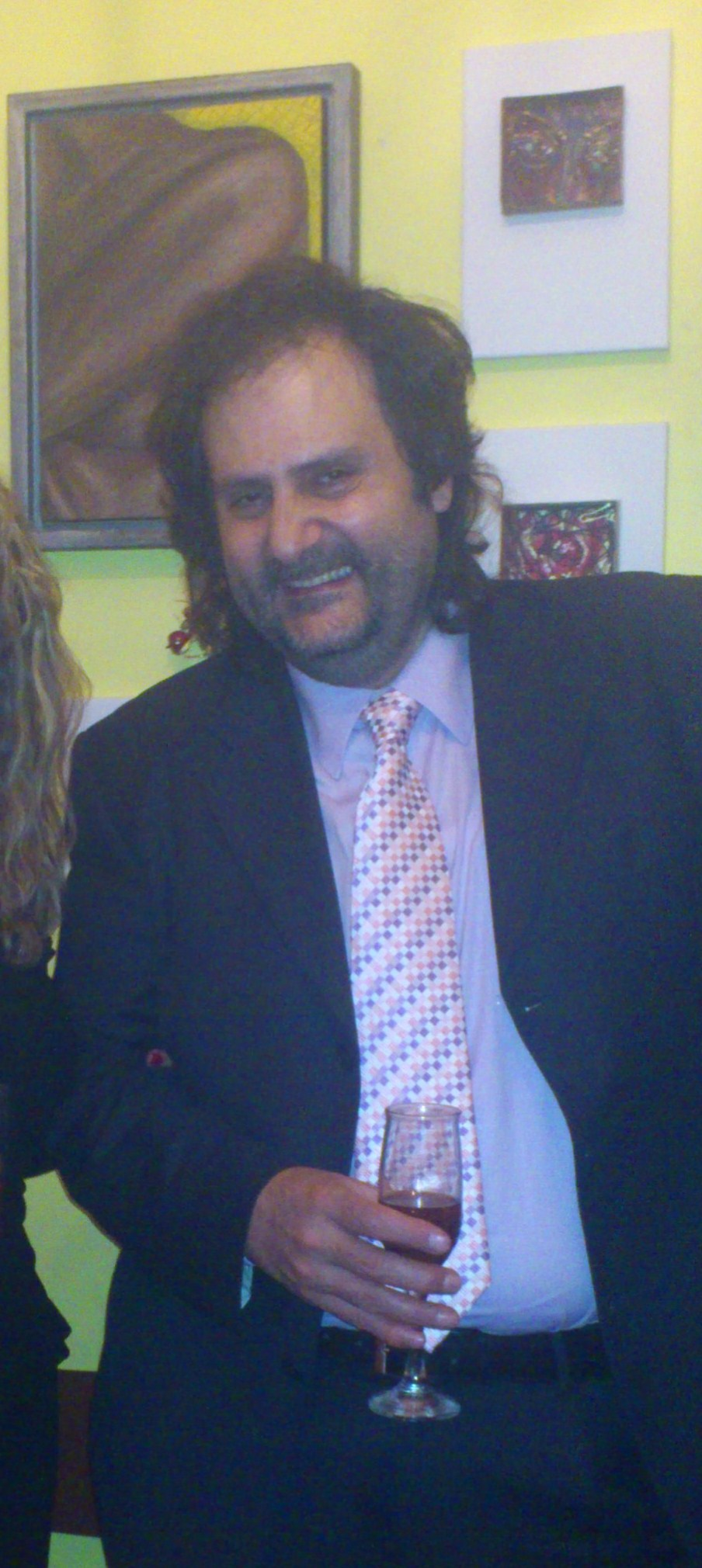 Leontios Petmezas, Greek art critic and writer